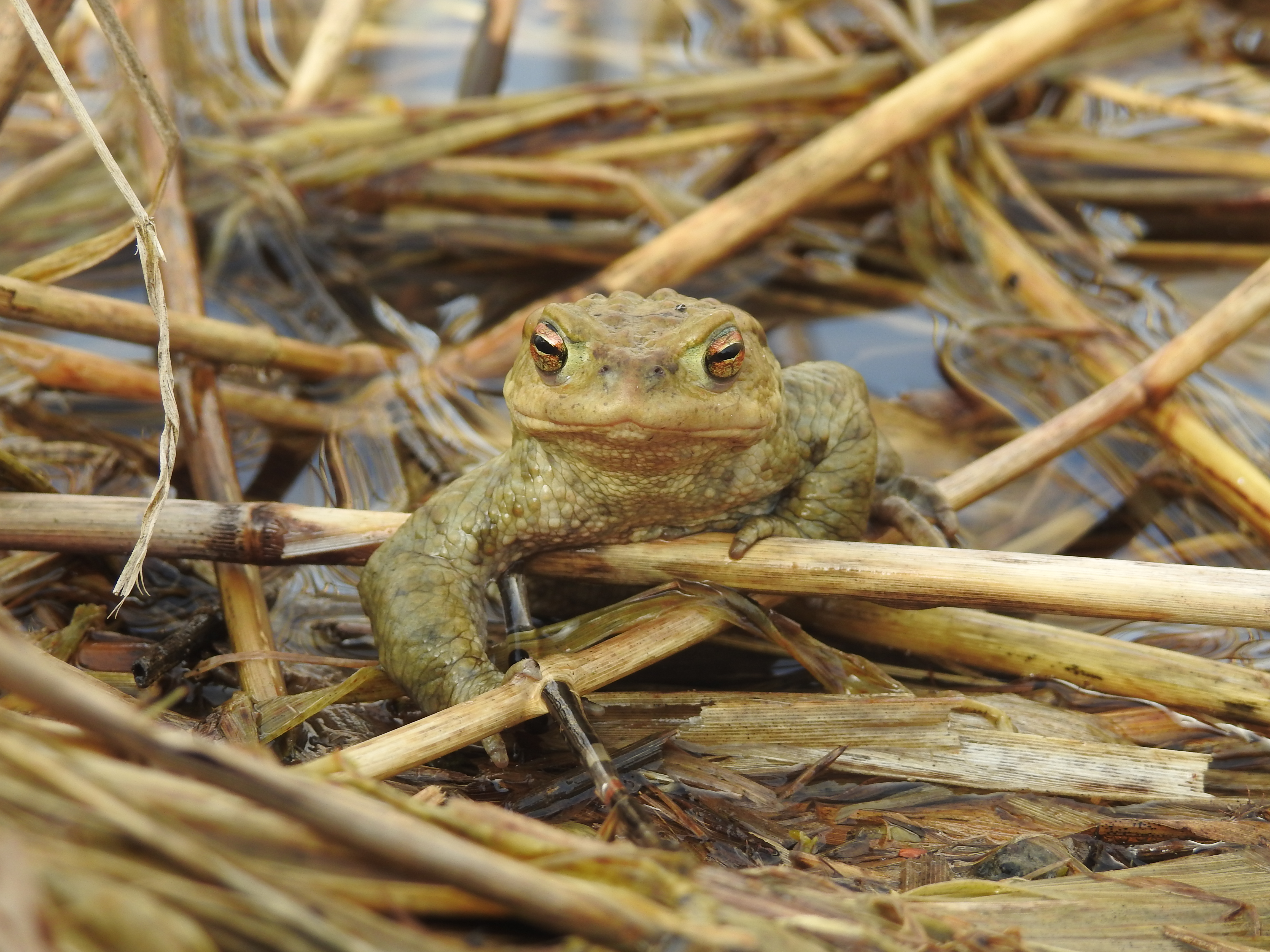 Common toad (Bufo bufo) in a reed bed at Illmensee, Baden-Württemberg, Germany.